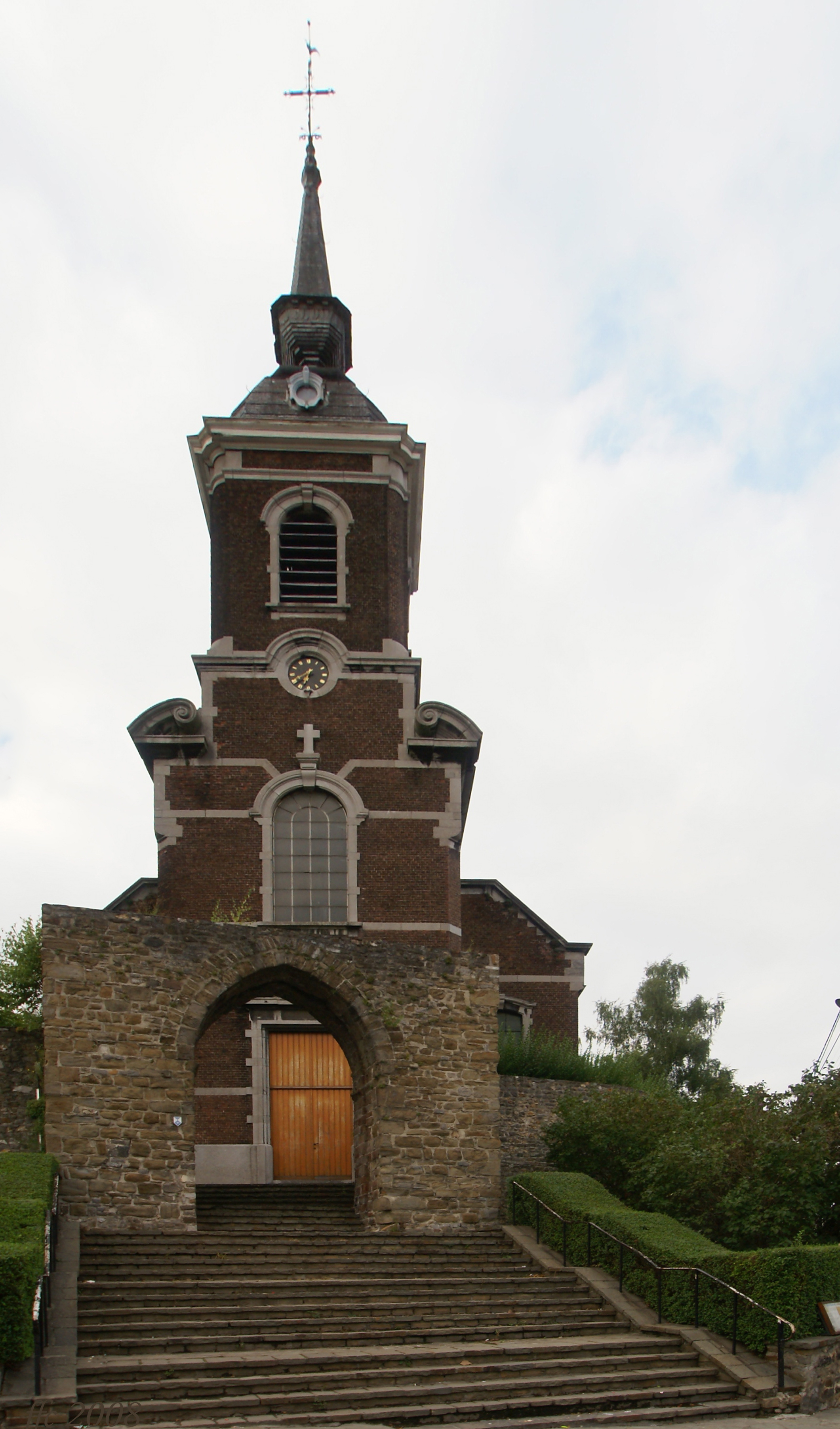 Haccourt (Belgium): Saint Hubert's Church and old castle's walls